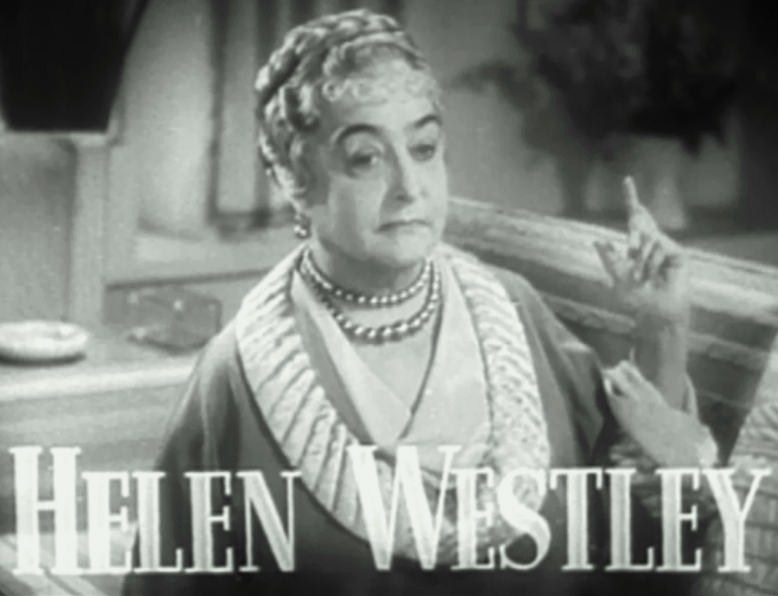 Helen Westley in Roberta - trailer (cropped screenshot)